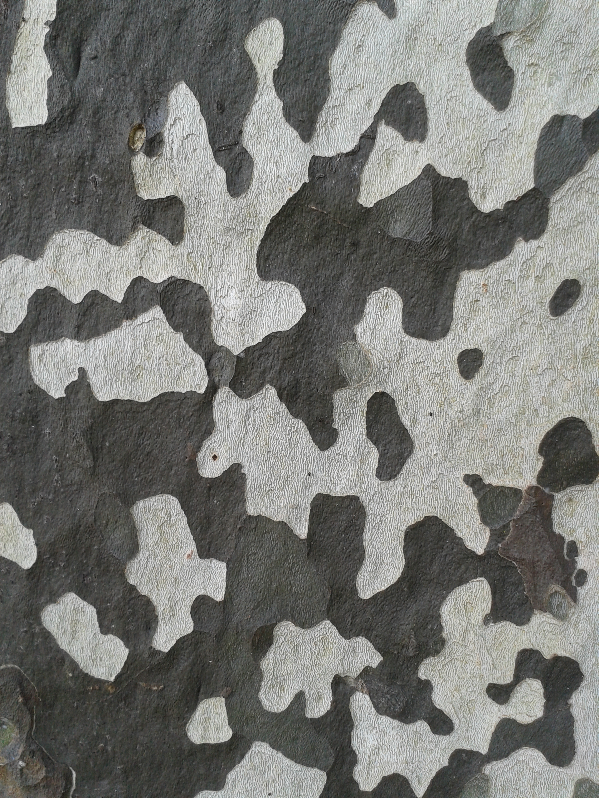 Patterned bark of London plane at Tayac, Dordogne, France